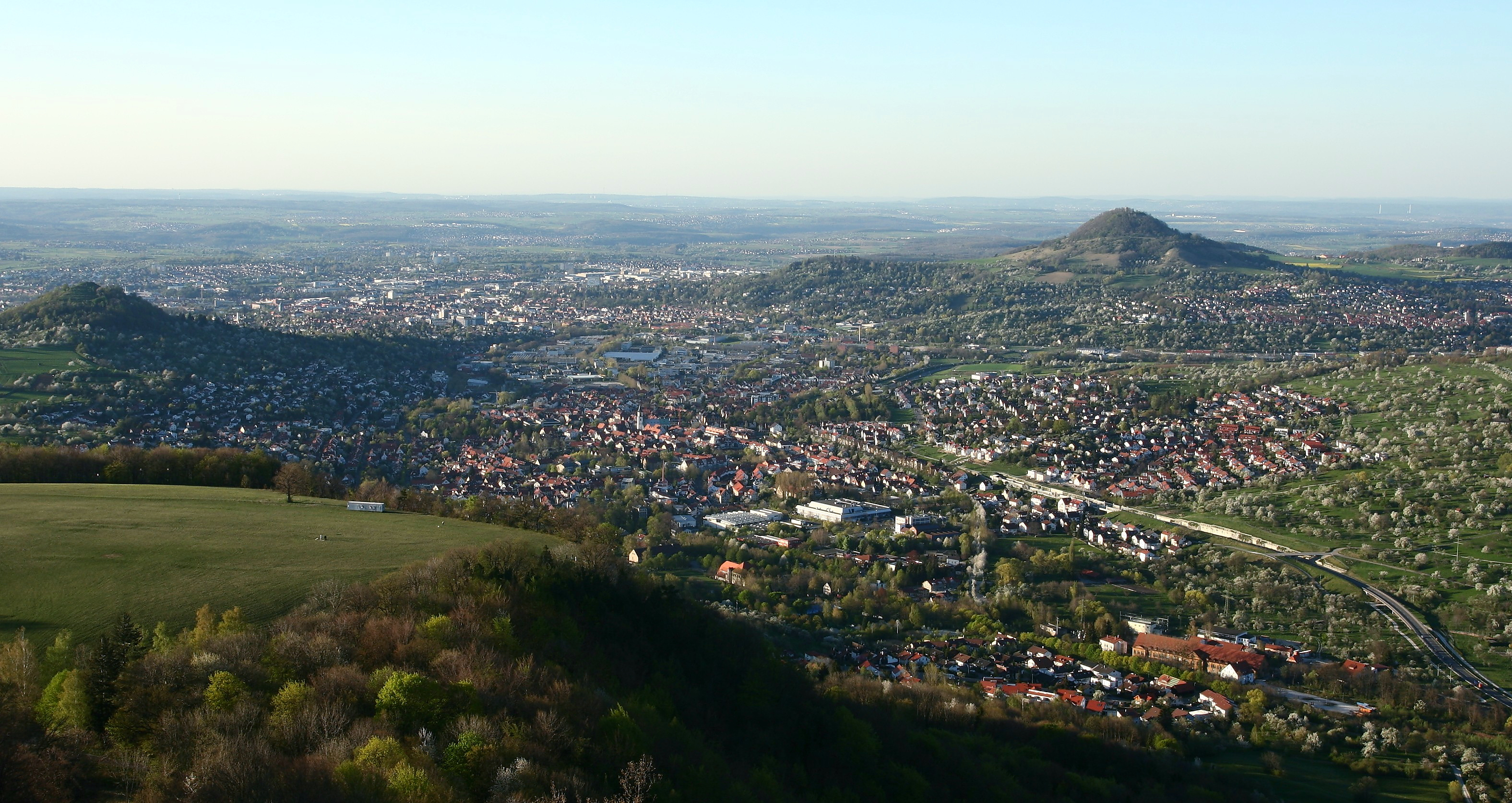 Panorama view over Pfullingen. Pfullingen to the front, Reutlingen in the back, Georgenberg to the left hand, Achalm to the right hand side